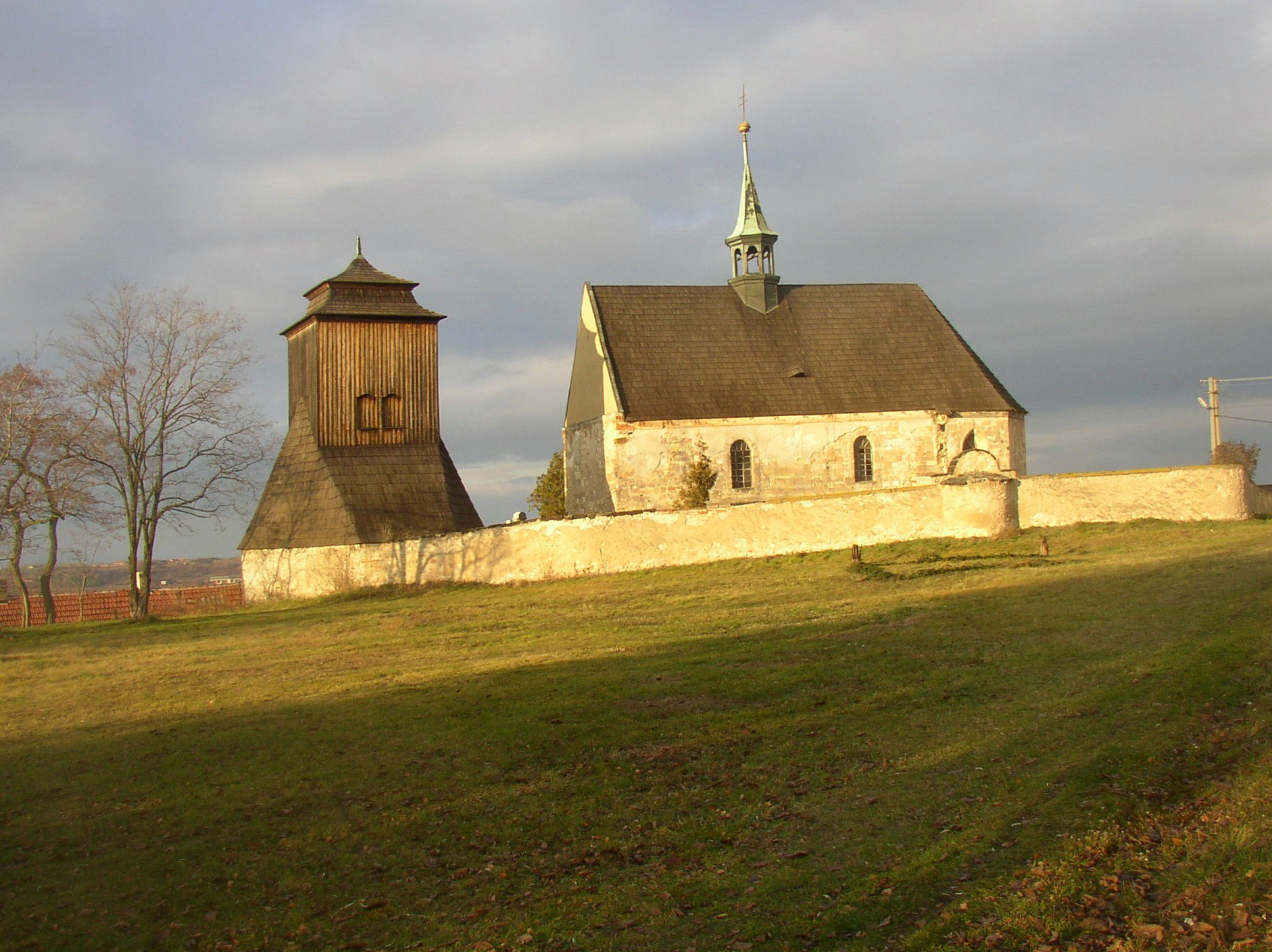 Church of St James the Great and wooden belfry in Želenice (Kladno District), Czech Republic.